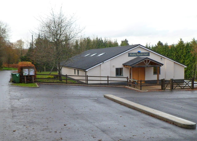 Rudry Parish Hall. Rudry Parish Hall is owned and run by the community of St James Parish. The hall was rebuilt in 2009. The original hall opened here in 1957. Various local groups use the hall regularly, such as Steps Dance Class on Monday evenings and yoga classes on Wednesday evenings.